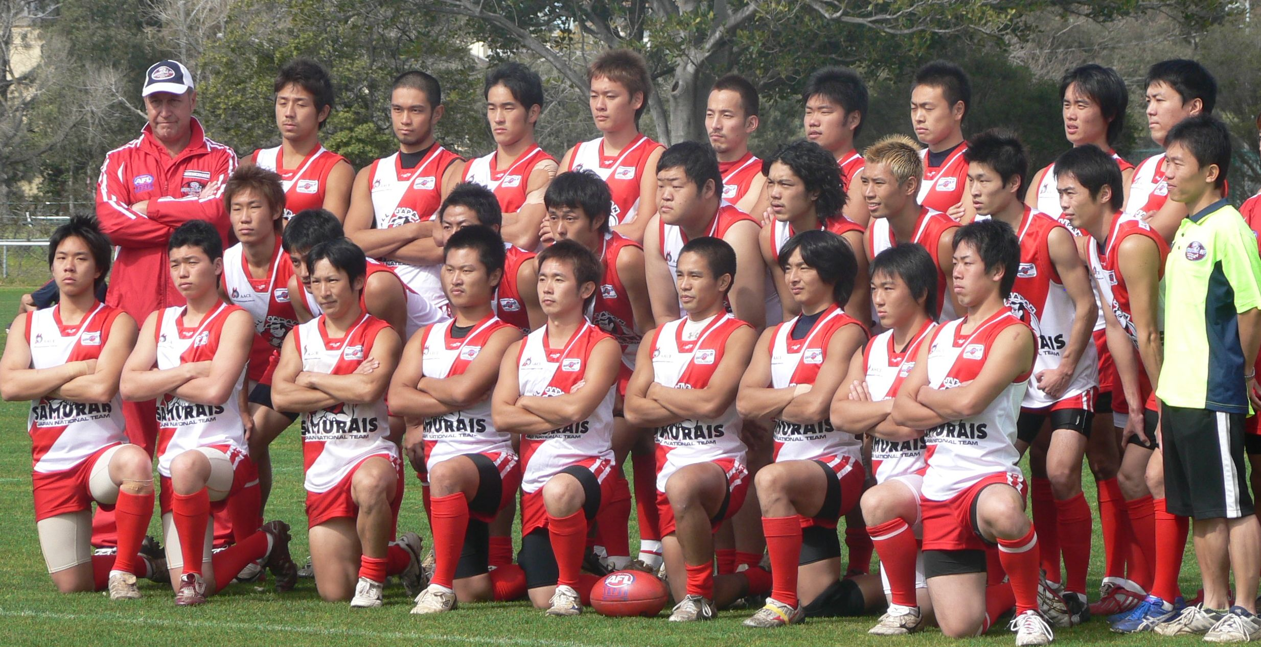 Japan's national Aussie Rules team lines up for team photo at the 2008 International Cup